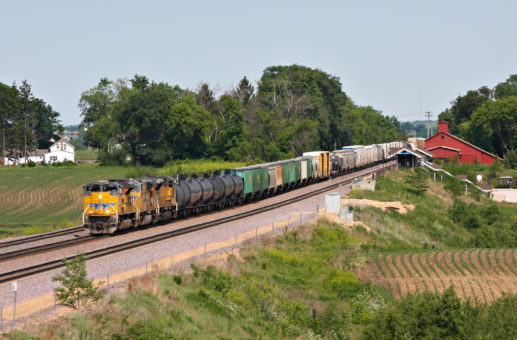 UP 8658 west rolls by the Metra La Fox station on 6/12/11.